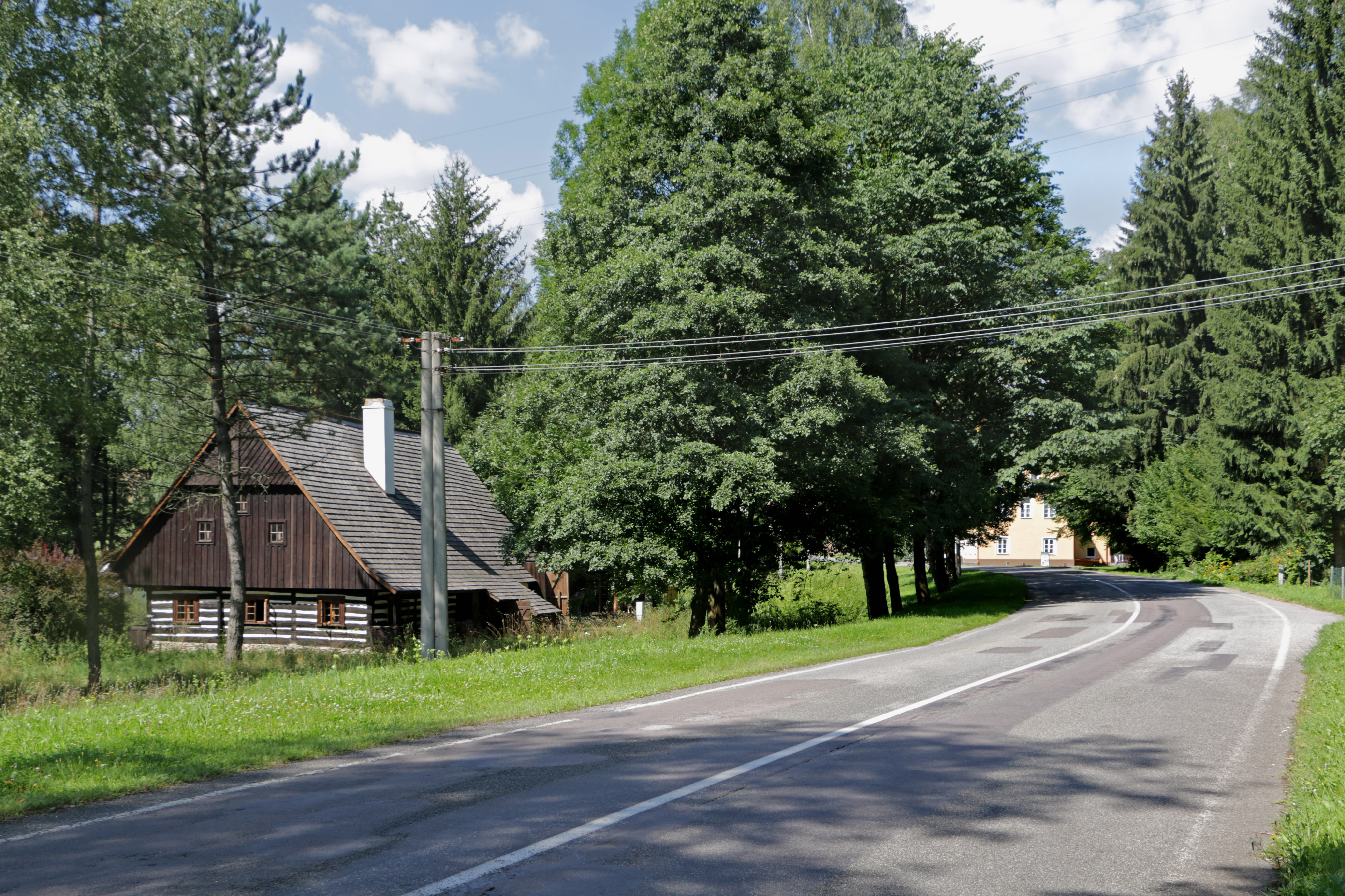 Middle part of Kounov, Czech Republic.